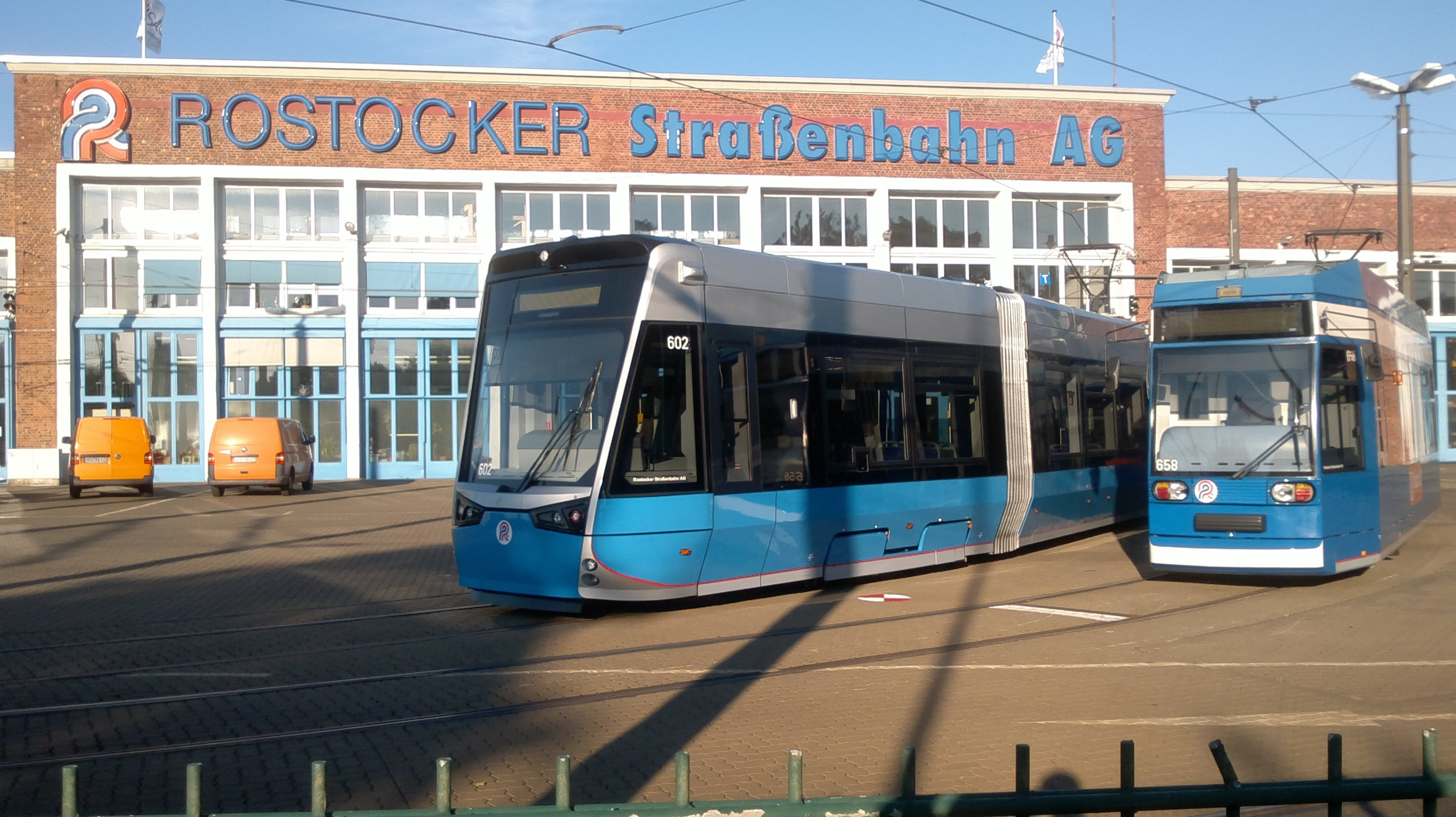 There is a Tramlink 6N2 on the left. On the right next to it, there's a tram of the type 6NGTWDE. Both trams are parking on the RSAG yard.